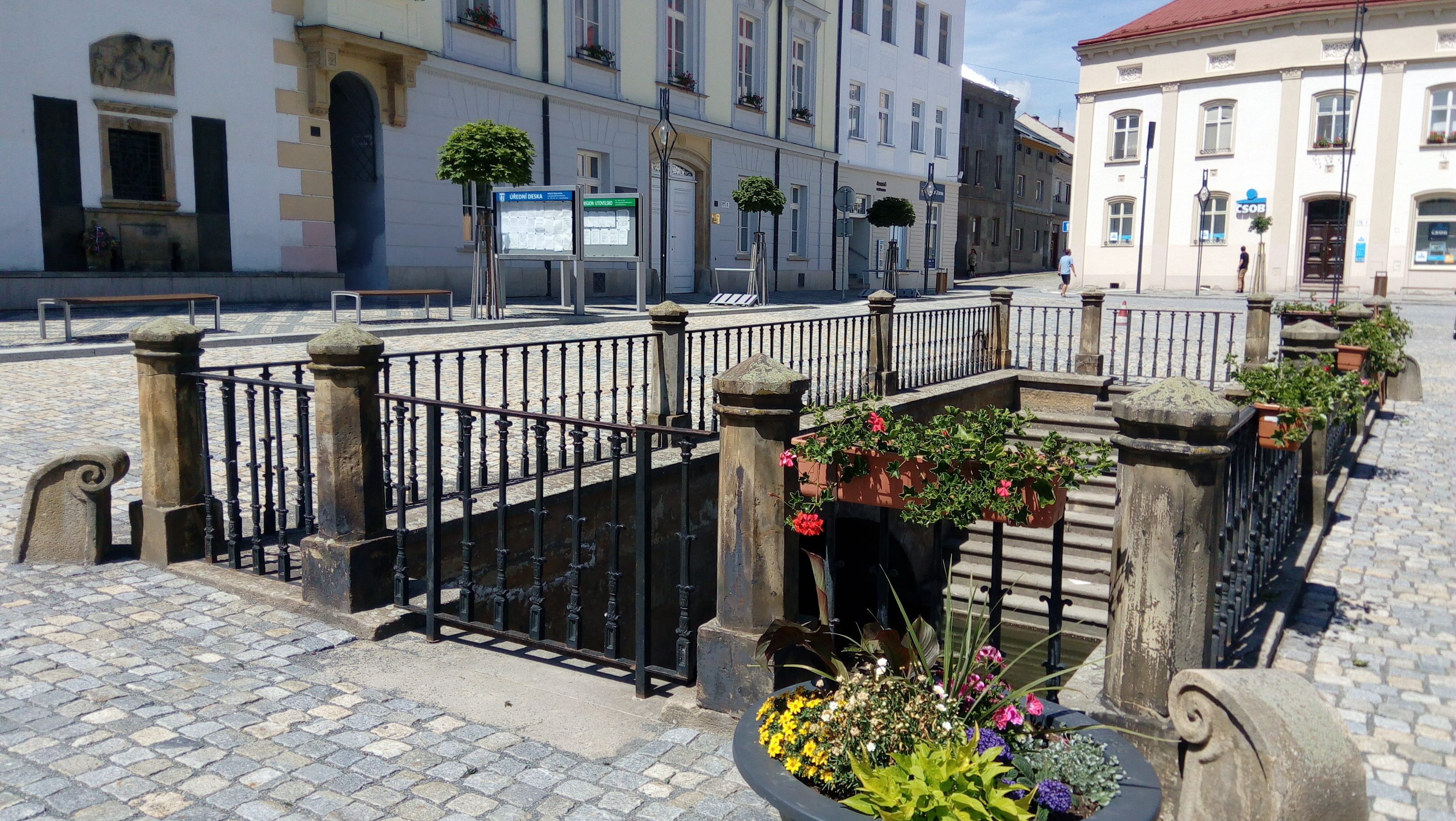 Nečíz in Přemysl Otakar Square in the town of Litovel, Olomouc District, Olomouc Region, Czech Republic.